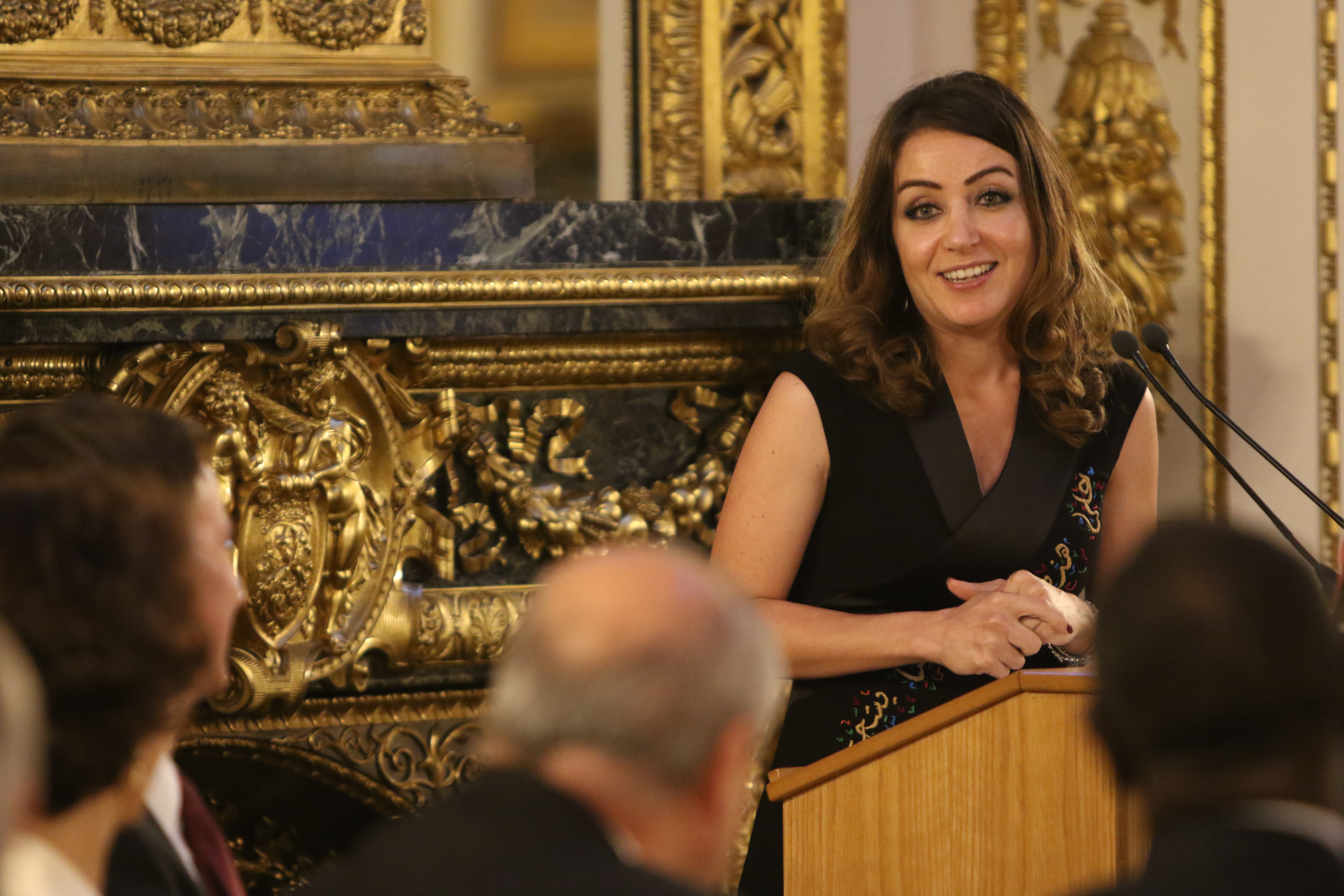 Zaina Erhaim, Institue for War and Peace Reporting at the Global Conference for Media Freedom in London, 10 July 2019.